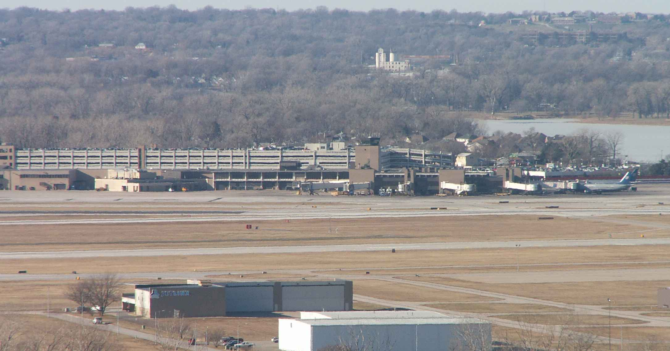 The Eppley Airfield (OMA) is located just a few miles northeast of downtown Omaha, Nebraska. Carter Lake is shown just behind the main terminal to the east.